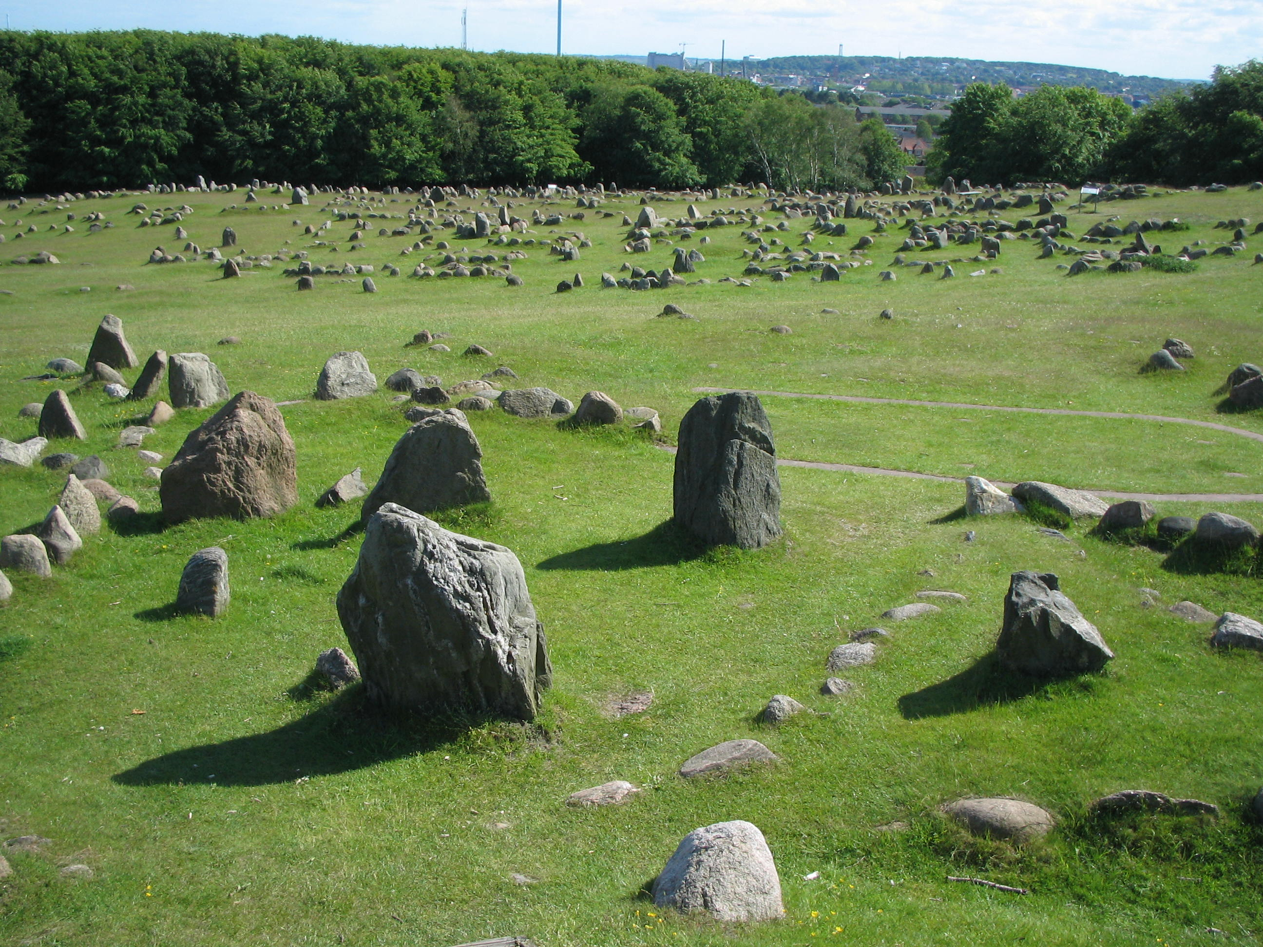 Lindholm Hills, Viking burial site in Denmark.